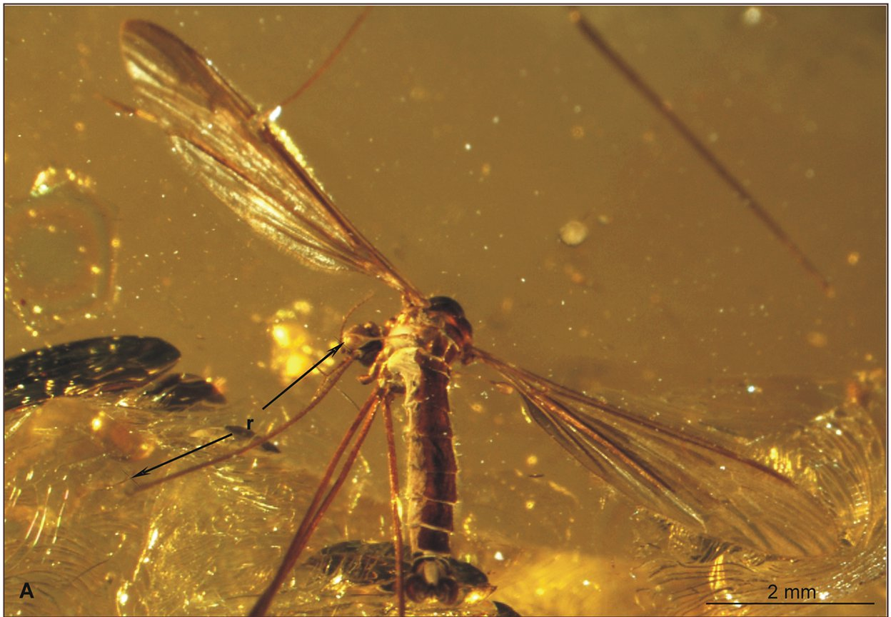 Morphology of Elephantomyia (E.) longirostris No. 1089–6: A. body, latero-dorsal view Abbreviations: r—rostrom.